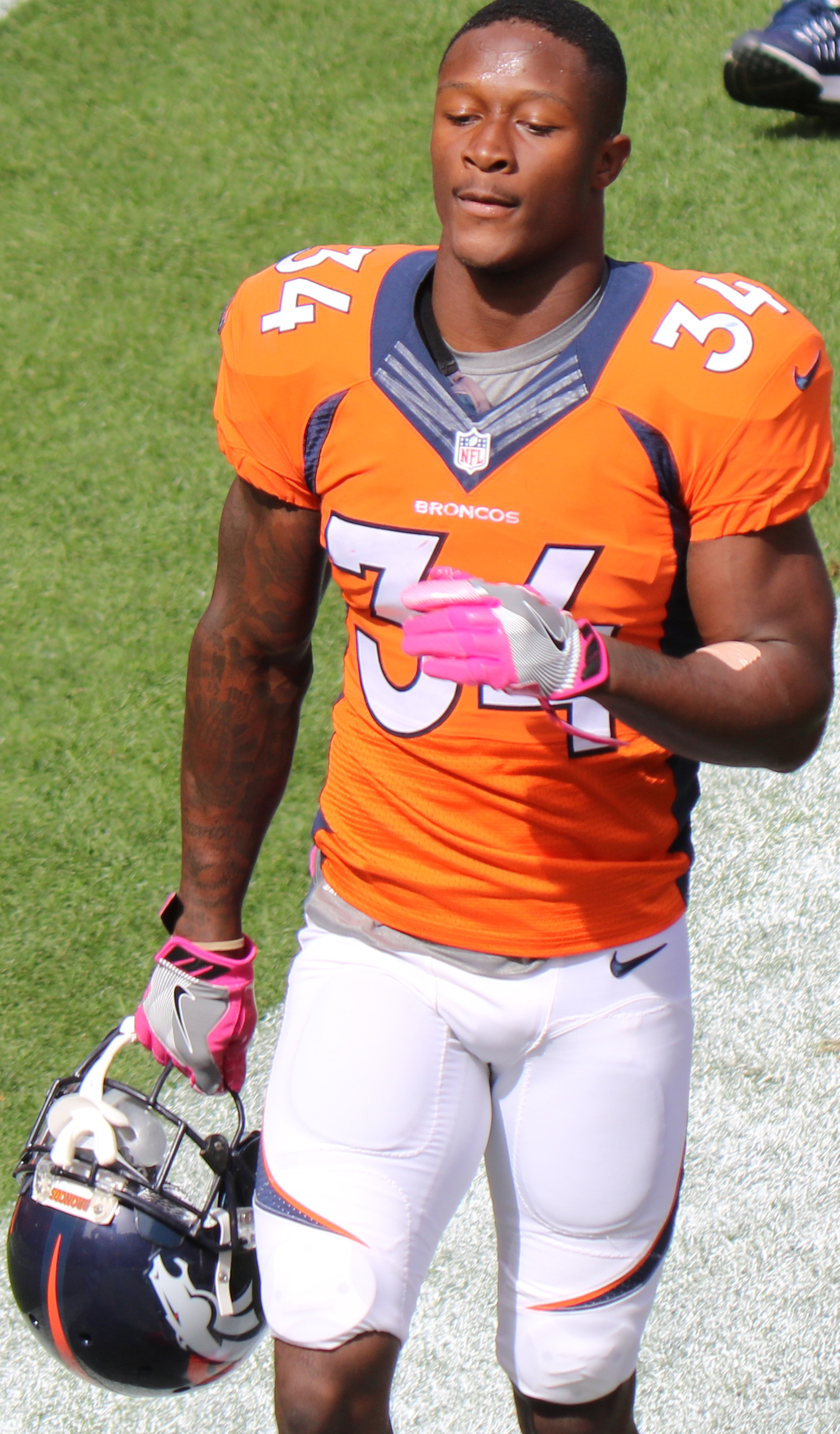 Will Parks, a player on the National Football League.